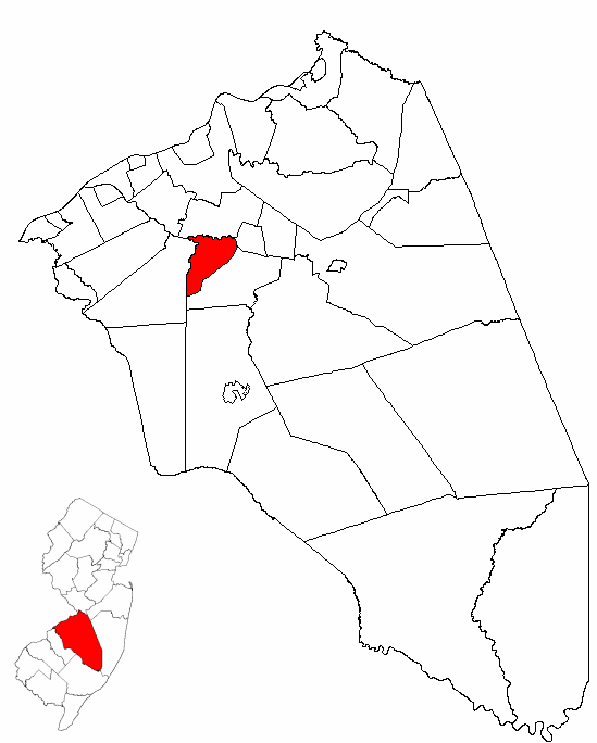 Map of Burlington County highlighting Hainesport Township